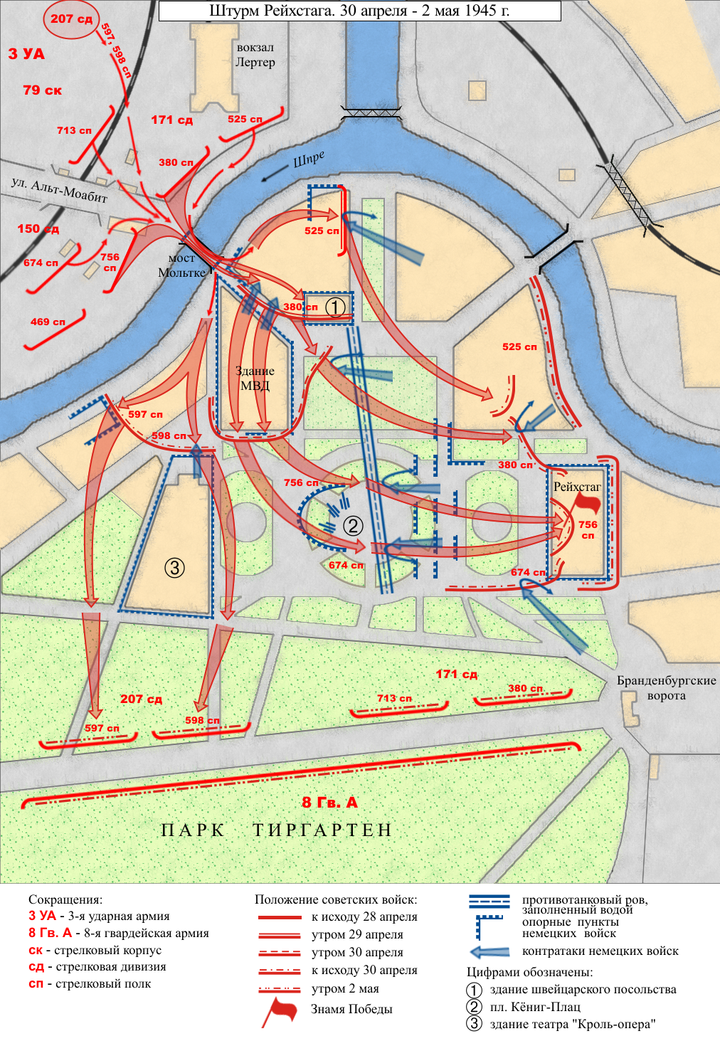 Map of Battle for the Reichstag